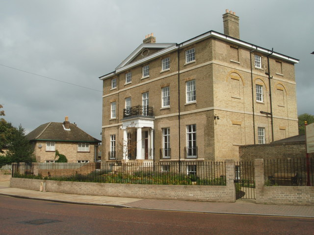 Chatteris House, near to Chatteris, Cambridgeshire, Great Britain. A large town house converted to flats and apartments.